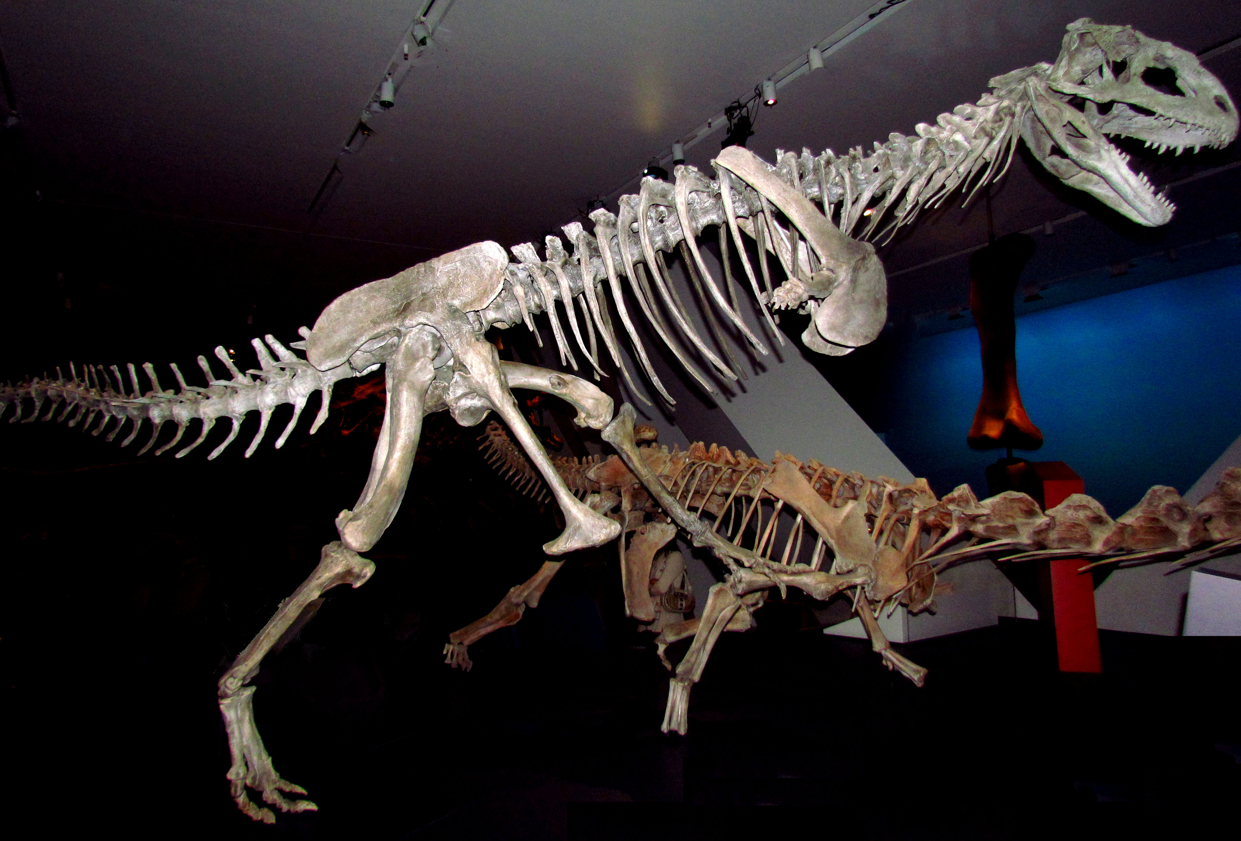 Majungasaurus crenatissimus, Royal Ontario Museum, Toronto, Ontario, Museum